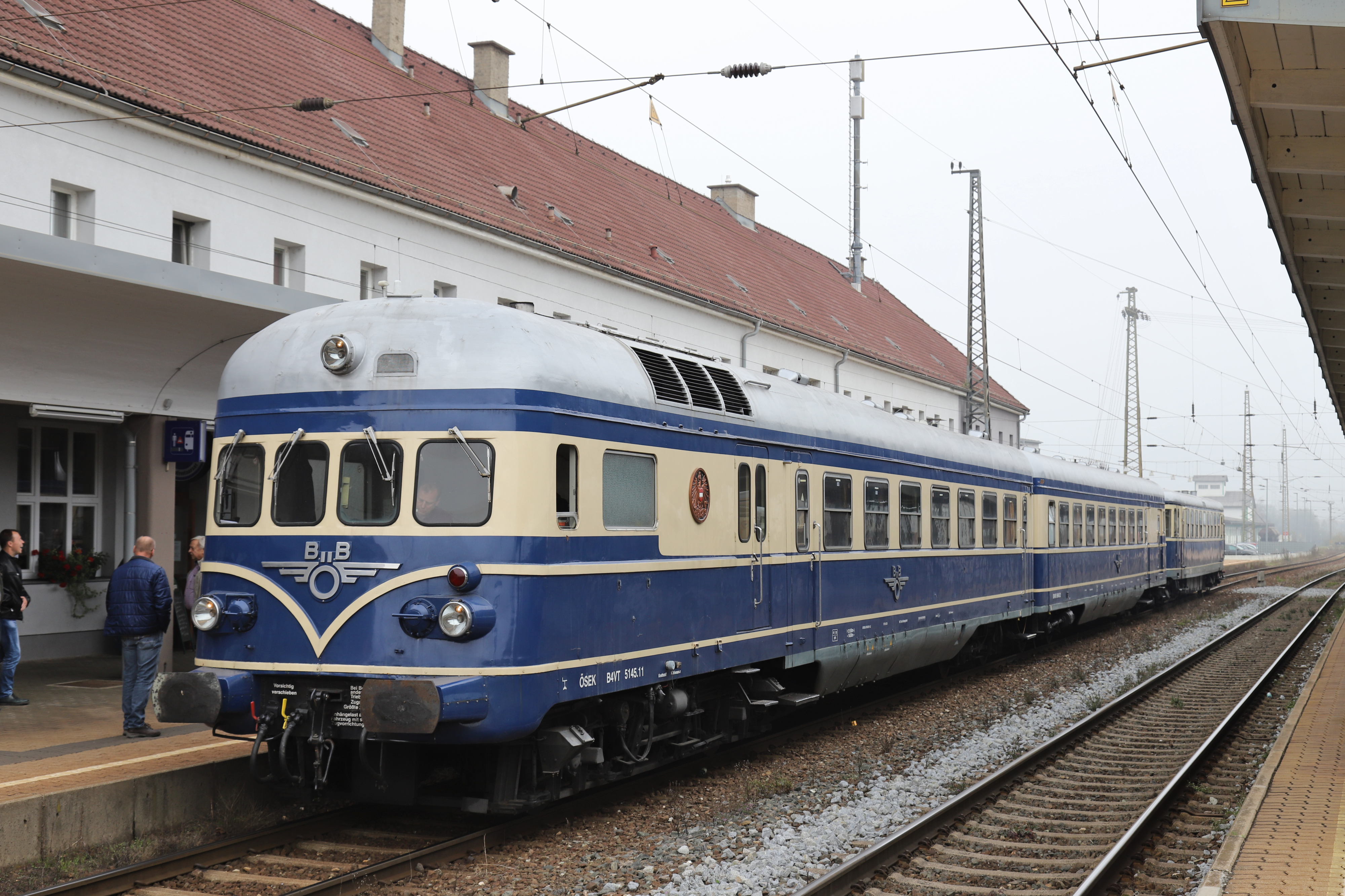 Preserved diesel railcar 5145.11 ex ÖBB with a special of Club Blauer Blitz at Knittelfeld.